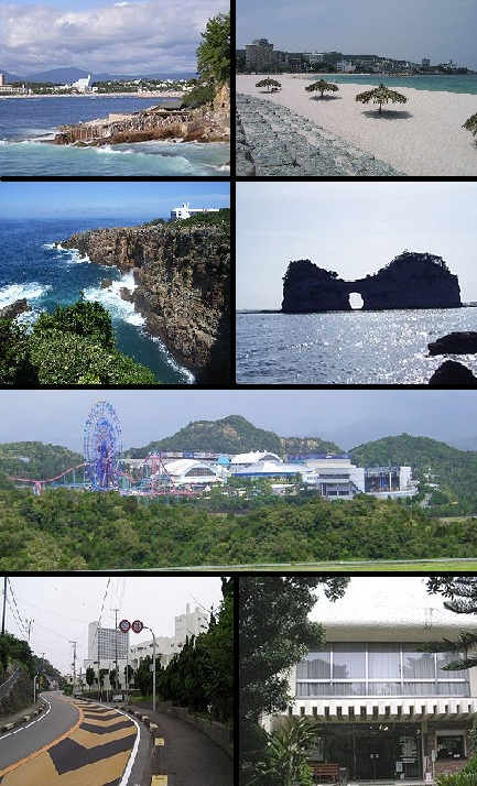 Shirahama montages